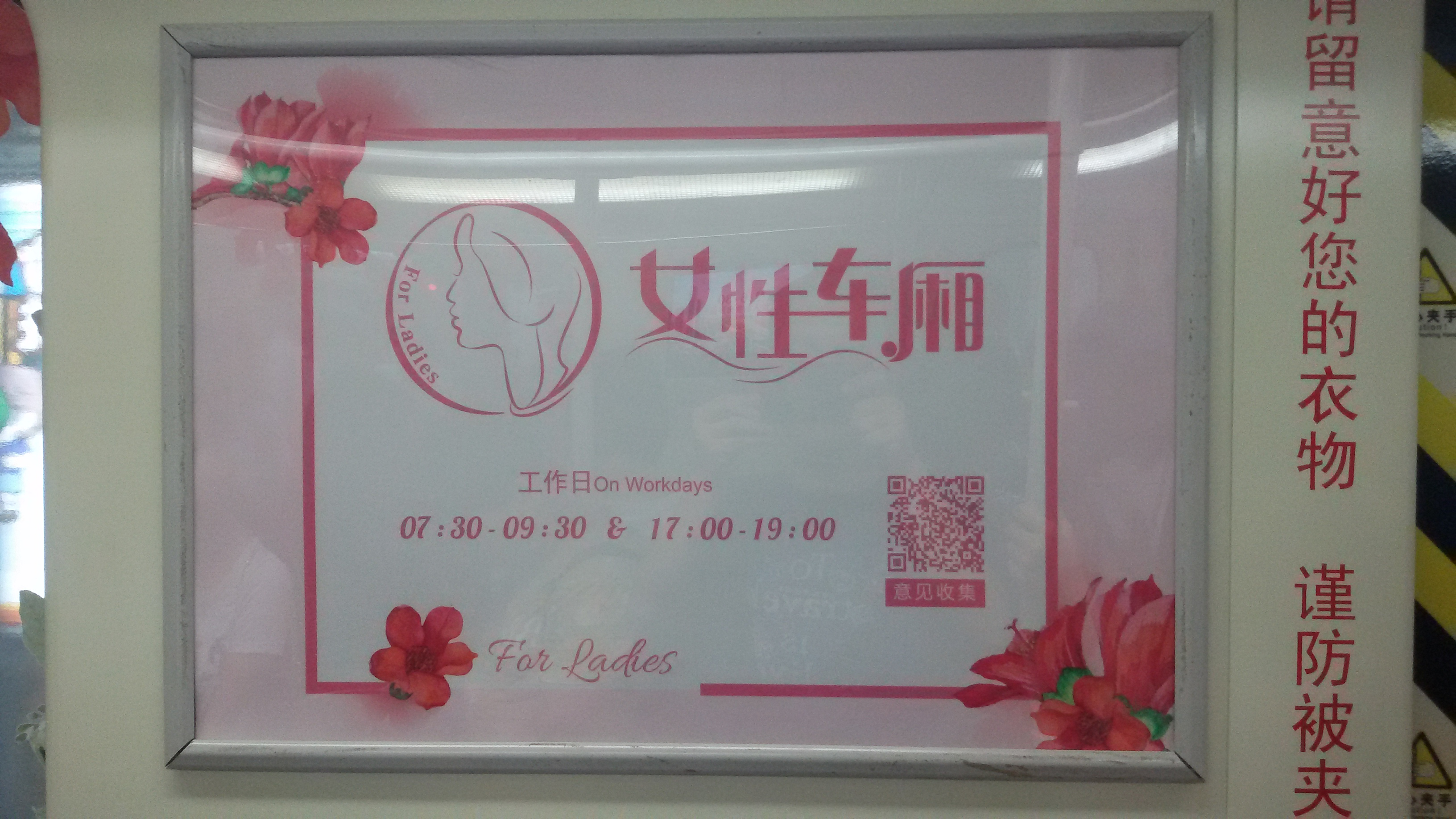 There are a lot of decorations about coaches for ladies' have setted up in the coaches at Line 1, Guangzhou Metro since Jun. 27th., 2017.